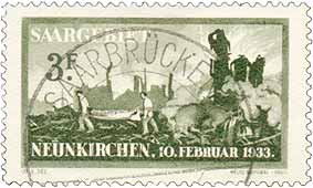 Stamp of Saar Territory, 3 Francs green, remembering the gas explosion in Neunkirchen 1933